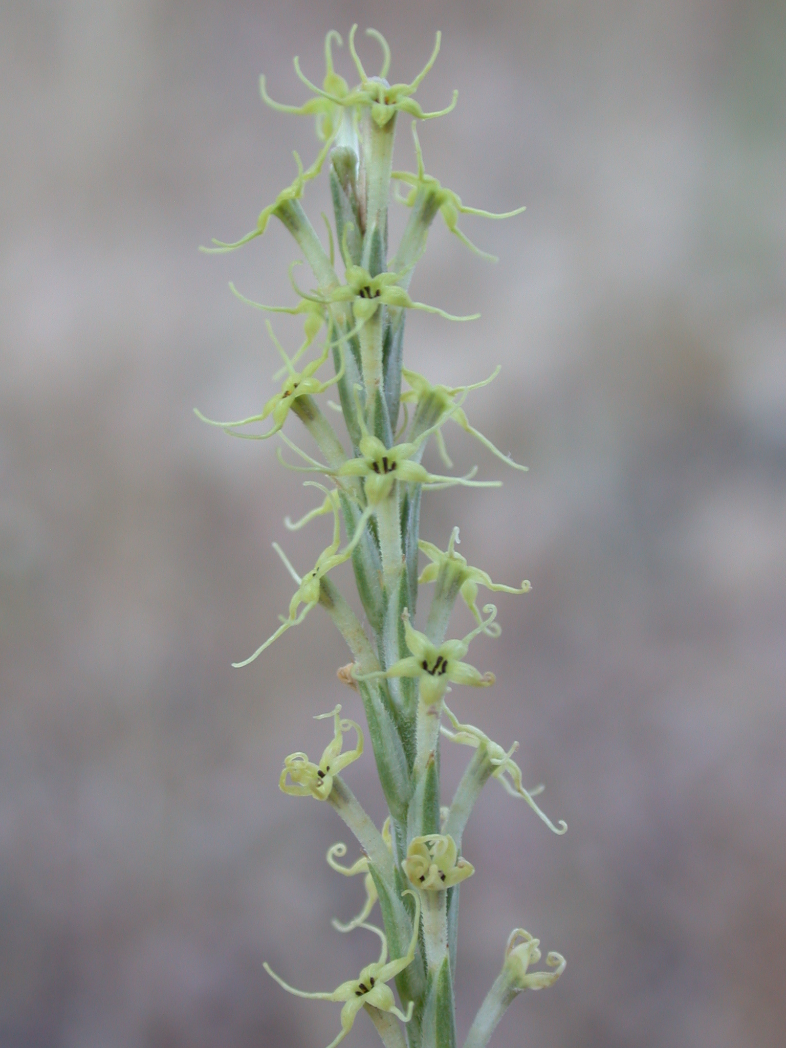 Crucianella macrostachya Boiss. (צלבית ארוכת-שיבולת), Har Avital, Golan Heights, Israel, June 11, 2006.